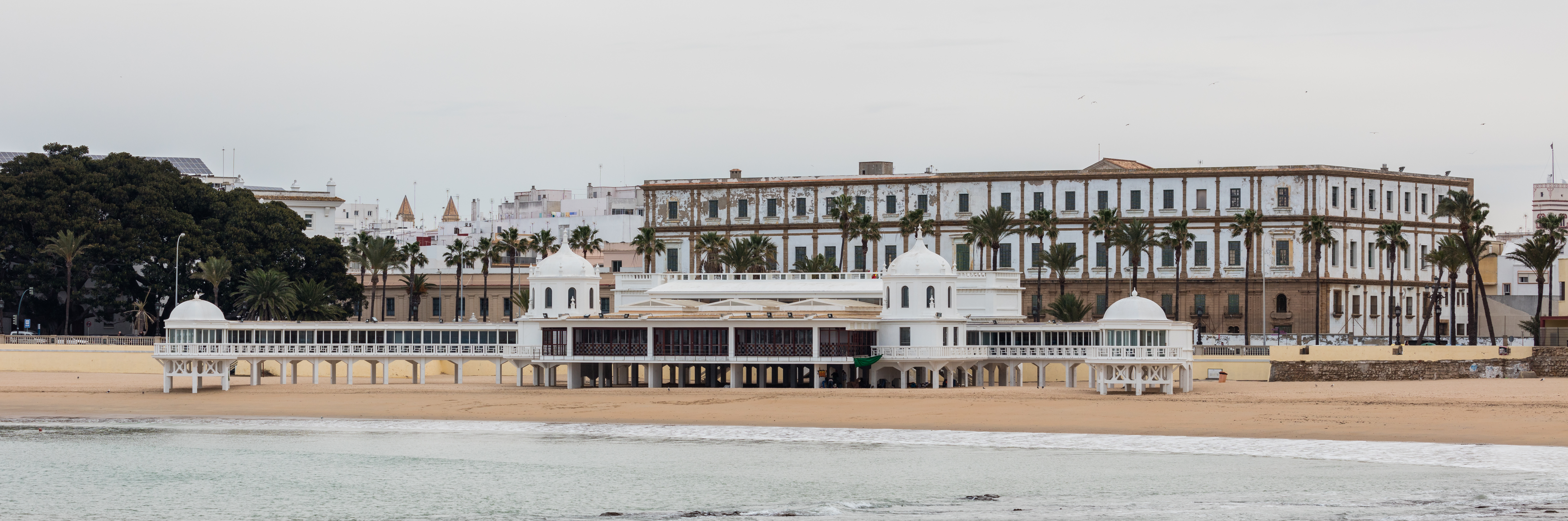 Martitime club La Caleta, Cádiz, Spain